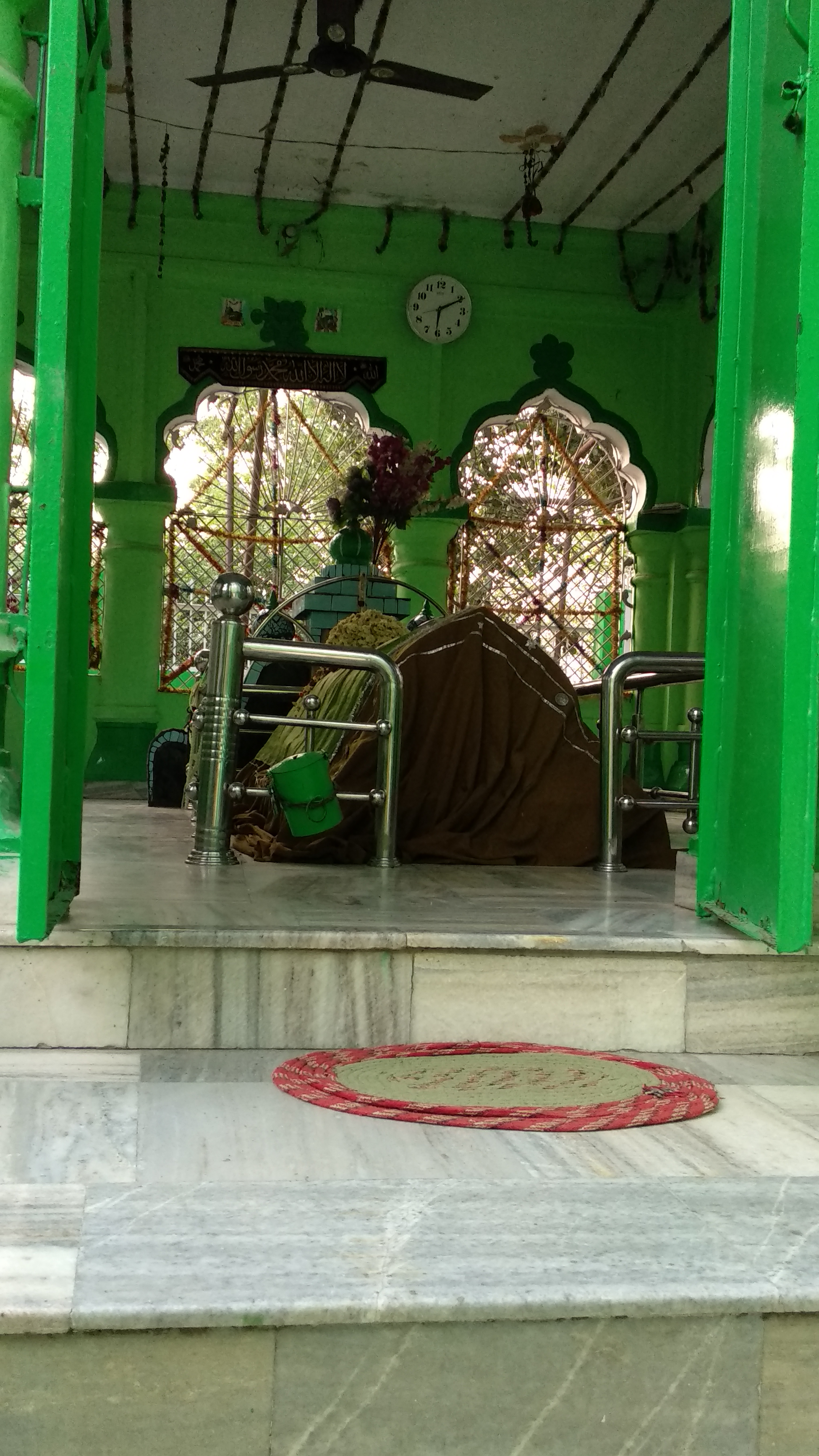 Mazaar of Shaikh Firoz Shaheed Bahraichi near Eidgah Bahraich .Shaikh Firoz Shaheed Bahraichi was great grandfather of Shaikh Abdul Haque Mohaddis Dehalvi .